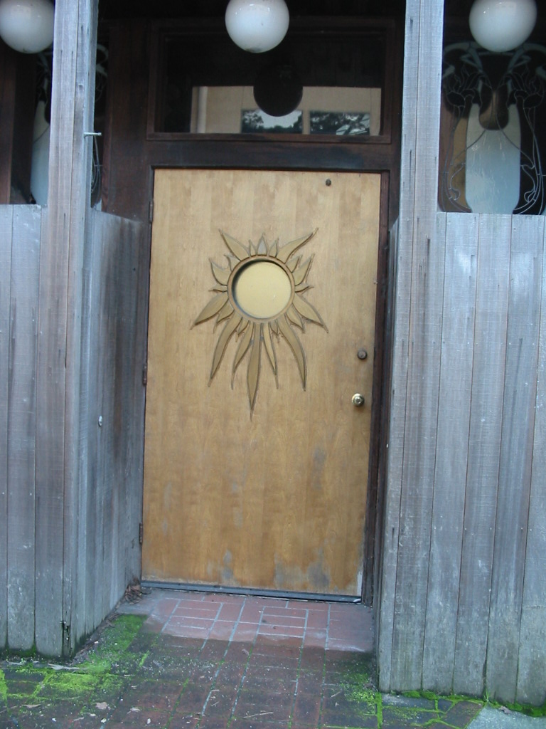 Snapshot of the Record Plant, a.k.a. The Plant, a recording studio in Sausalito, California. Photo shows the side door of the east side of the building.